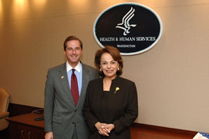 October 30, 2006 The Honorable Alex M. Azar II, Deputy Secretary of the U. S. Department of Health and Human Services with Her Excellency Nayla Moawad, Minister of Social Affairs of the Republic of Lebanon HHS photo by Chris Smith